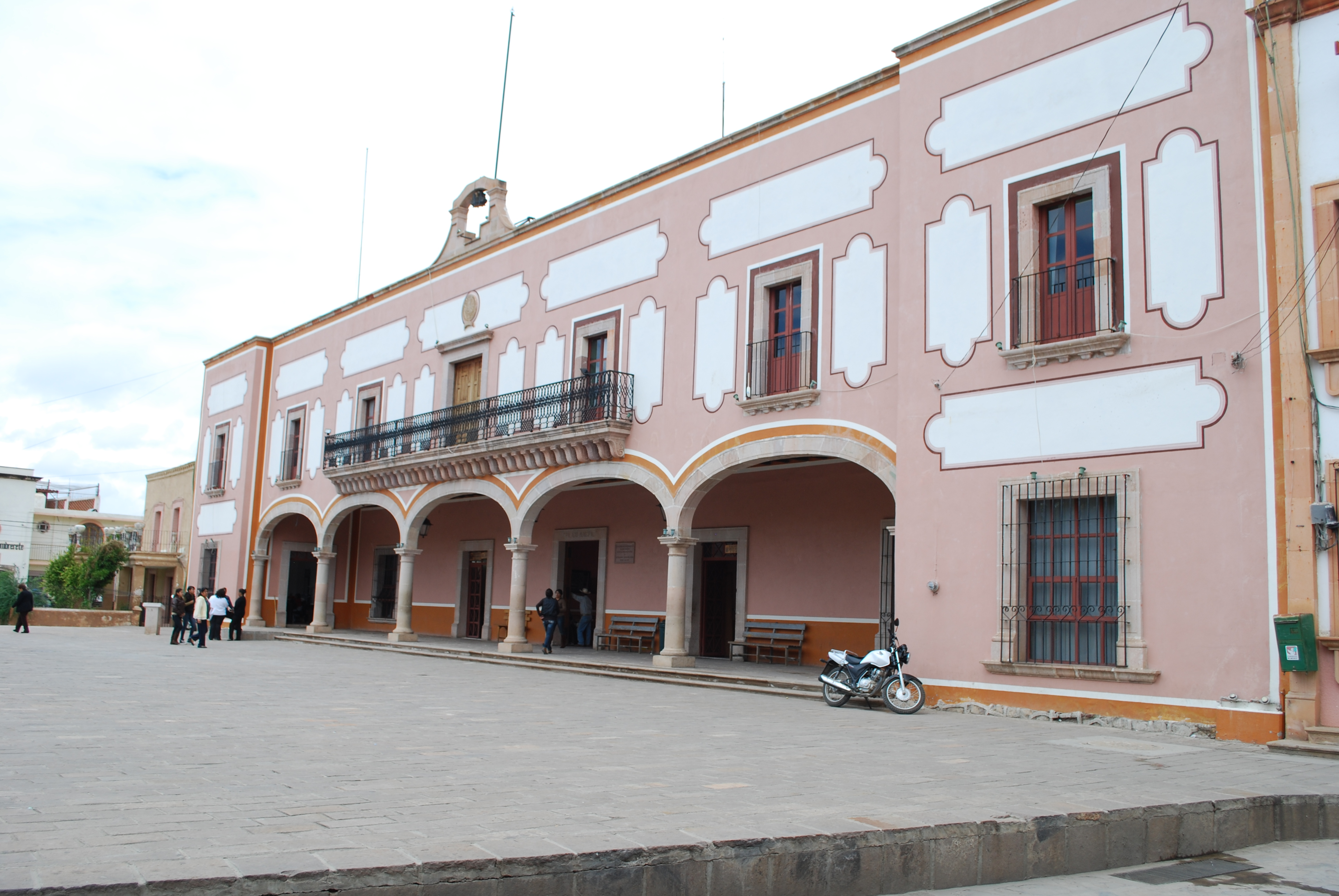 Municipal offices of Sombrerete, Zacatecas